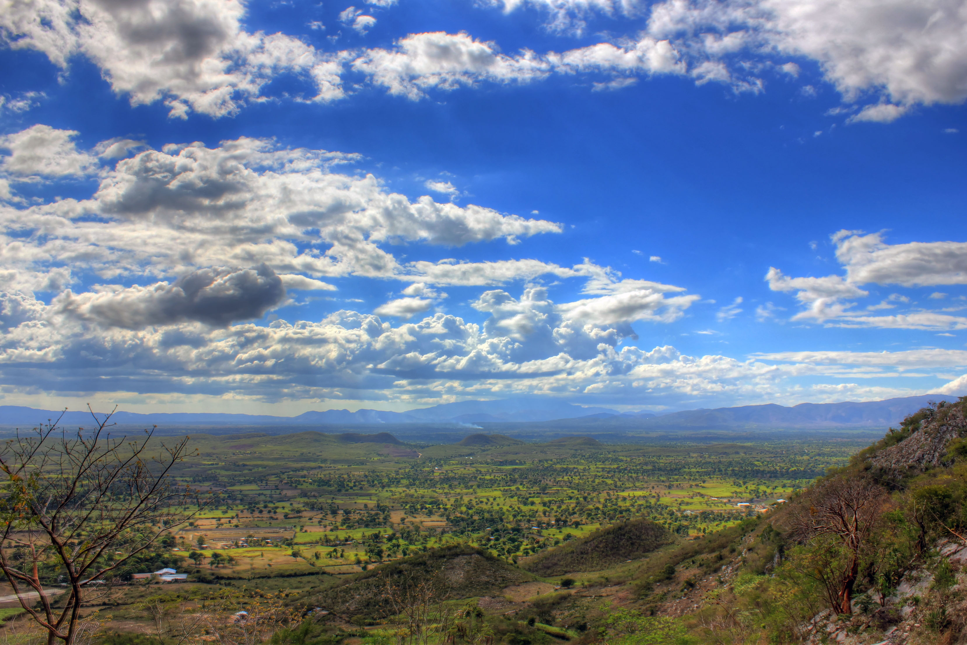 Pictures, landscapes, and places in the country of Haiti Looking at the Horizon